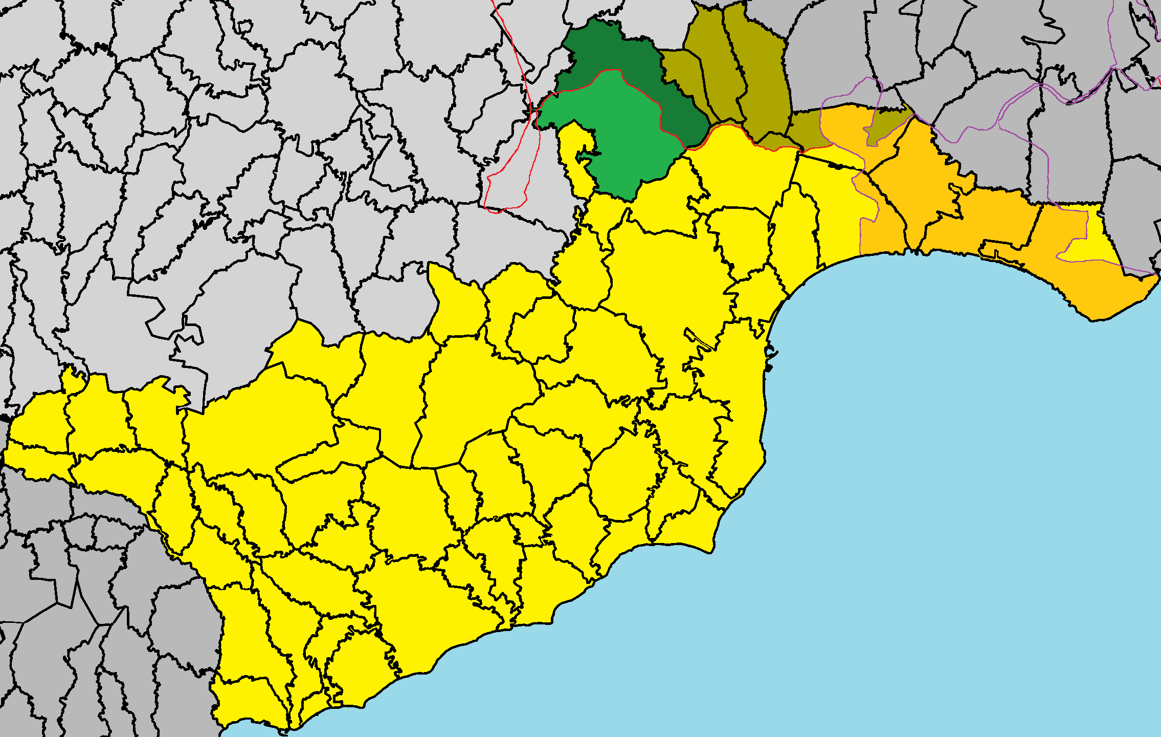 Athienou in Larnaca District.